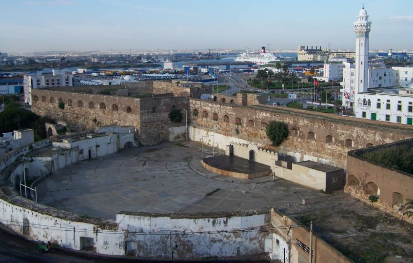 (c) 2005 Niels Elgaard Larsen View.